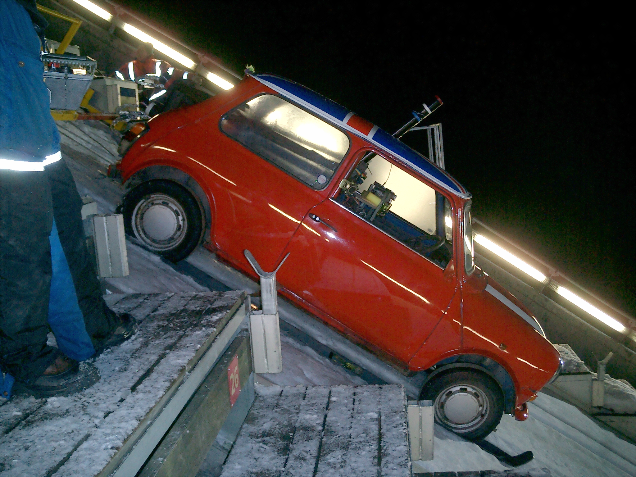 The RocketMen Limited. Mini